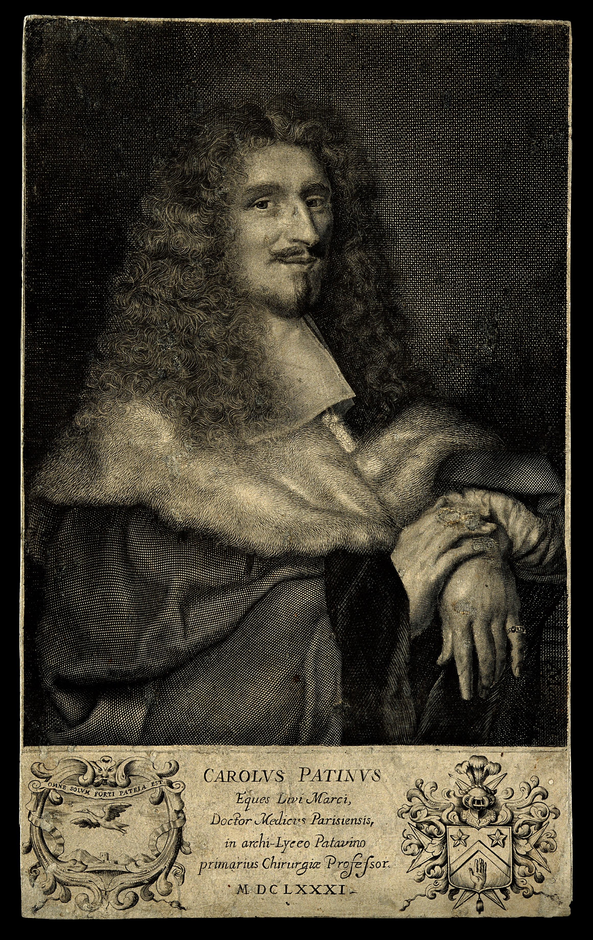 Charles Patin. Line engraving by A. Masson, 1681. Iconographic Collections Keywords: portrait prints; engravings; Charles Patin; A. Masson